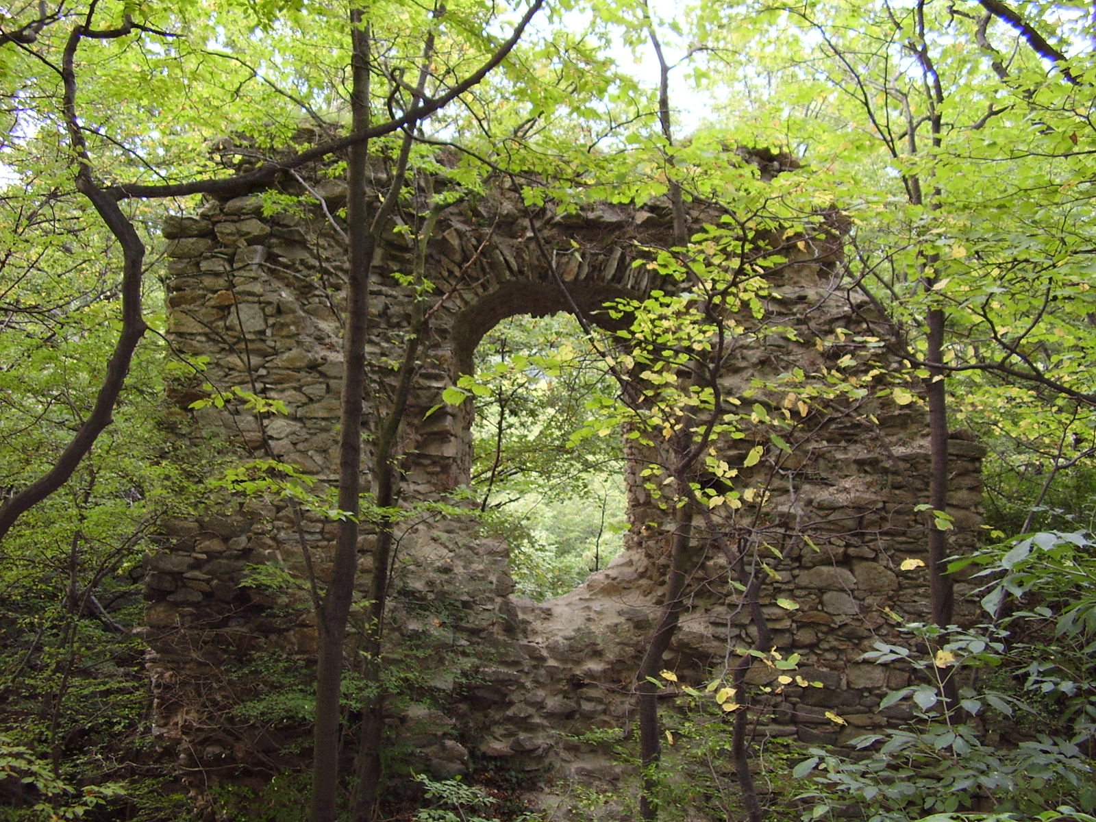 Slovakia, ruins of the Biely Kamen castle